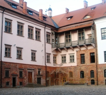 Mir Castle